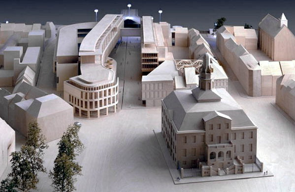 Maquette shopping centre Mosae Forum in Maastricht, the Netherlands